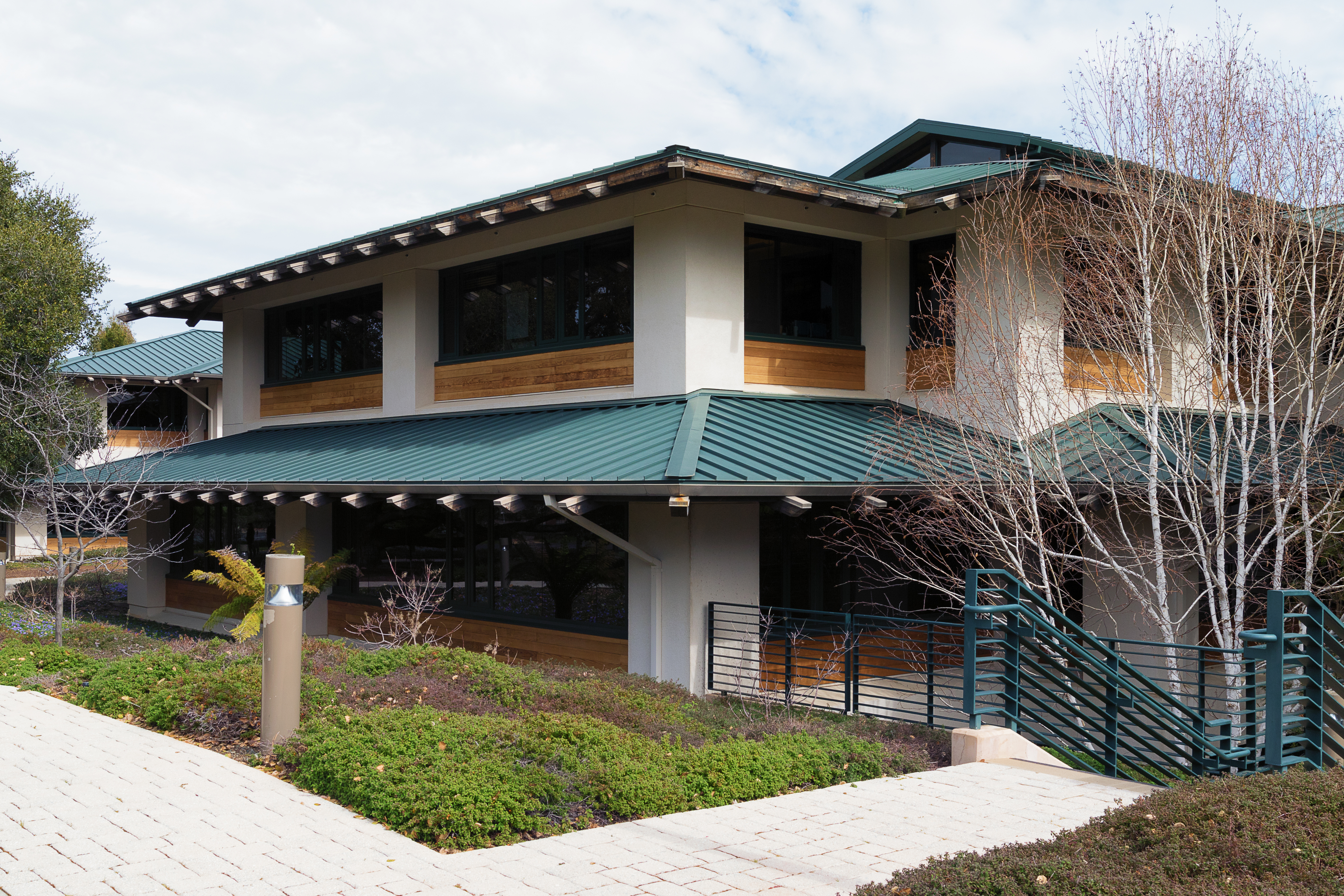 Hewlett Foundation office building, exterior